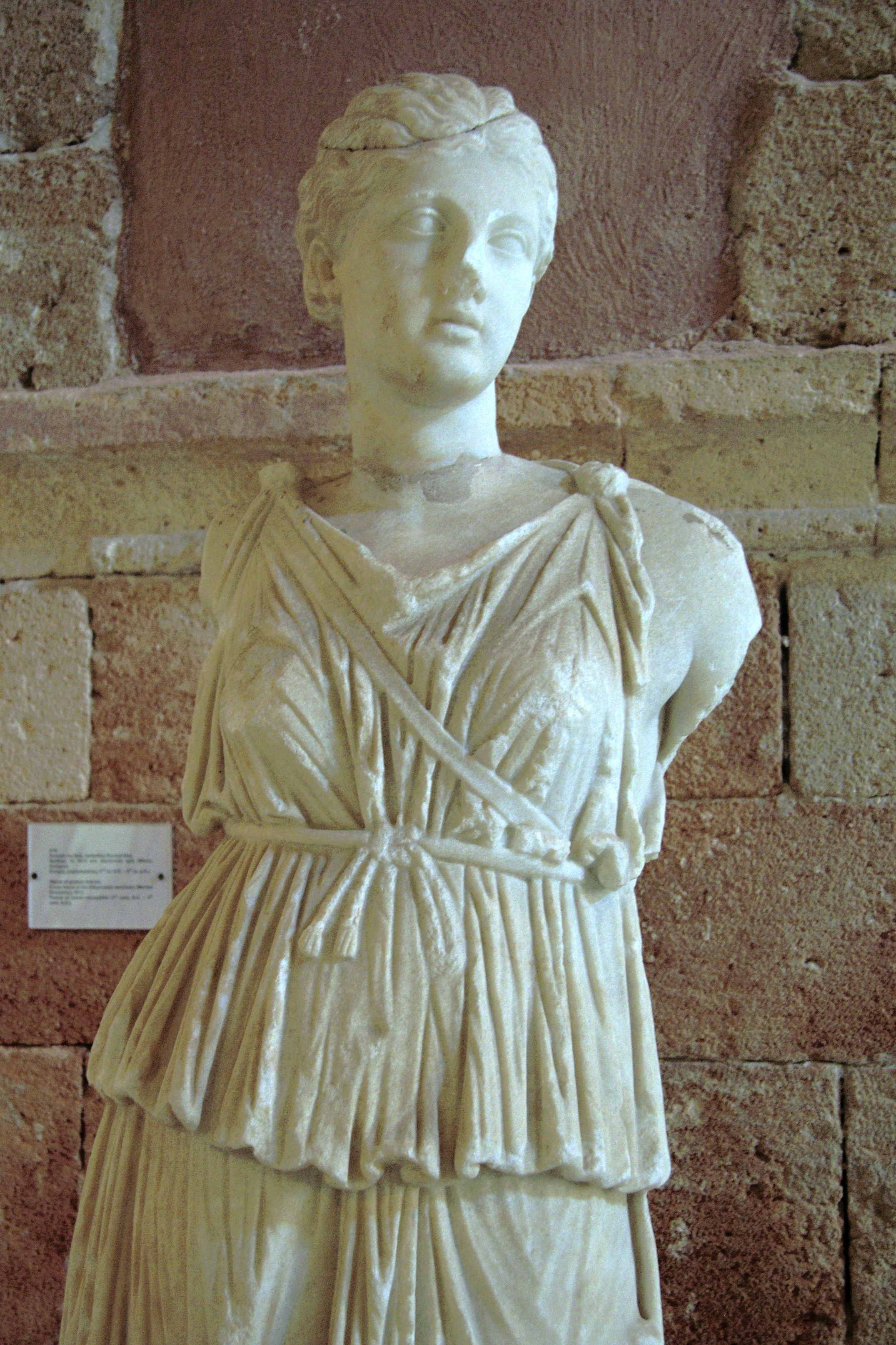 Statue of Artemis. Diktynnaion sanctuary (Menies Kissamou, Crete). Period of Roman occupation, 1st century BC - 4th century AD. Archaeological Museum of Chania, Lambda 79.